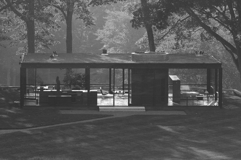 The Glass House in New Canaan, Connecticut.